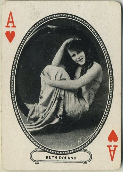 Ruth Roland